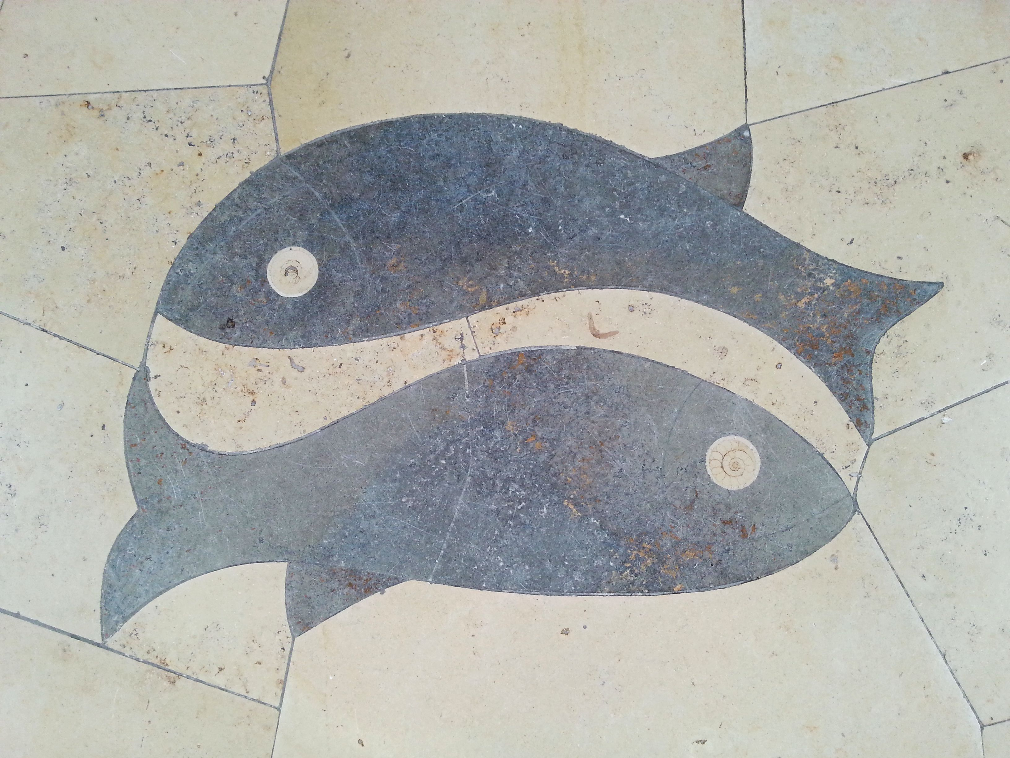 Fish mosaic on the stairs leading to the Antikensaal (room of antiquities) on the second floor of the northern wing of the Schneckenhof